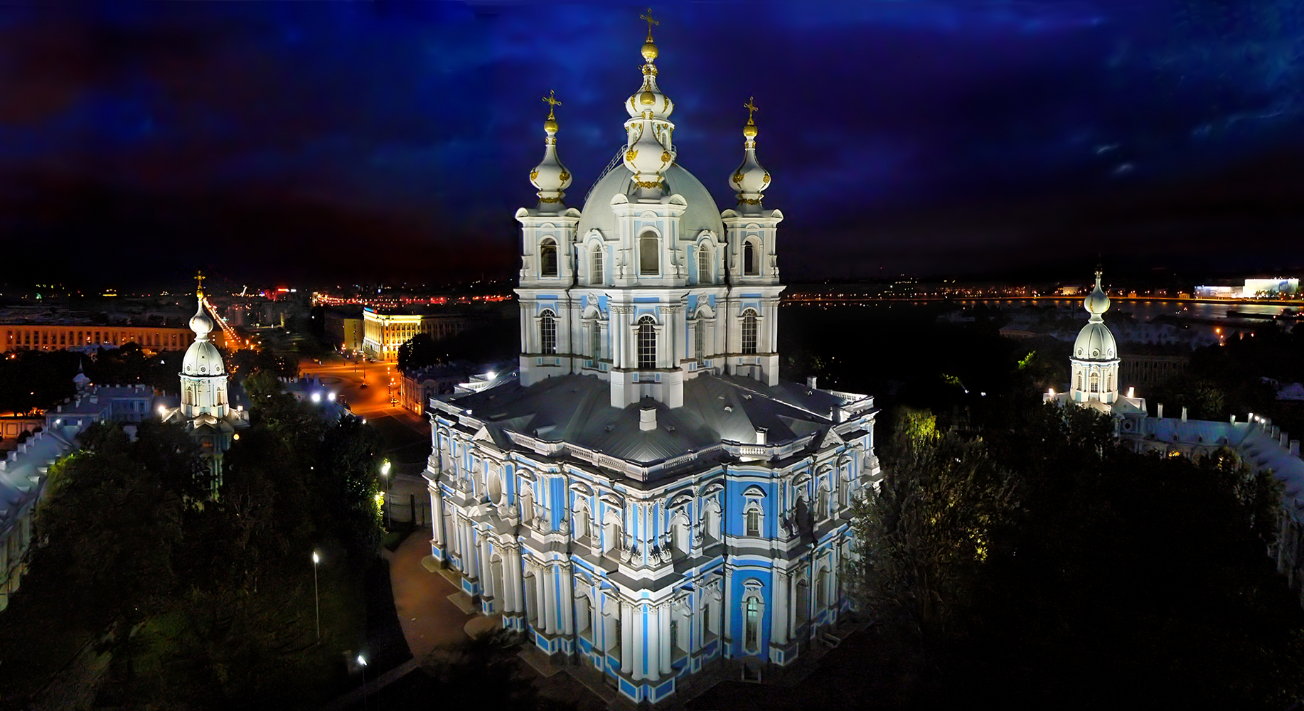 Smolny Cathedral.